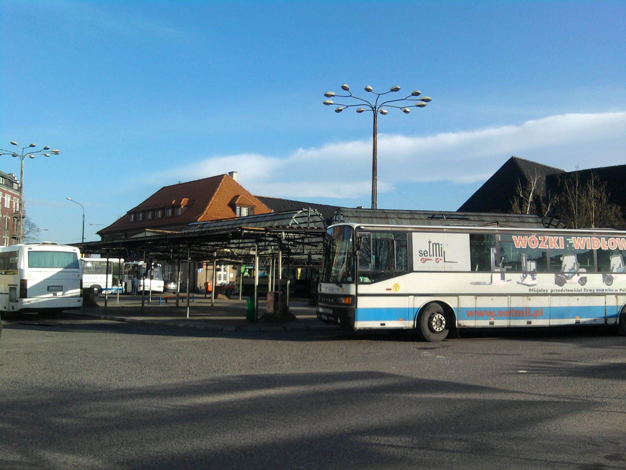 Gliwice Bus Station